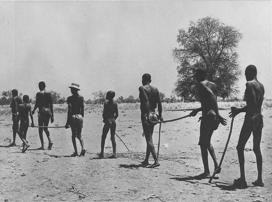 "In certain regions of West Africa, onchocerciasis is a more important cause of blindness than trachoma. In some villages it is common to see young children leading blind adults; in highly endemic areas the blindness rate in men over 40 years may be 40% or higher." Transcribed from the Atlas of Tropical and Extraordinary Diseases, p. 373. Photo contributed by WHO.